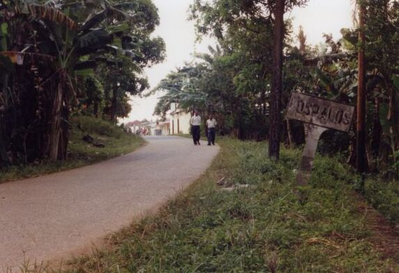 Photo by J. Patrick Fischer Traffic sign with town's name out of Portuguese period in Lospalos/Timor-Leste on 24th June 2002